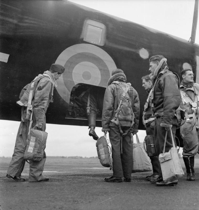 Life at a Bomber Station- Linton-on-ouse, Yorkshire, England, UK, October 1941 Men of No. 35 Squadron RAF board their Handley Page Halifax at Linton-on-Ouse, Yorkshire.